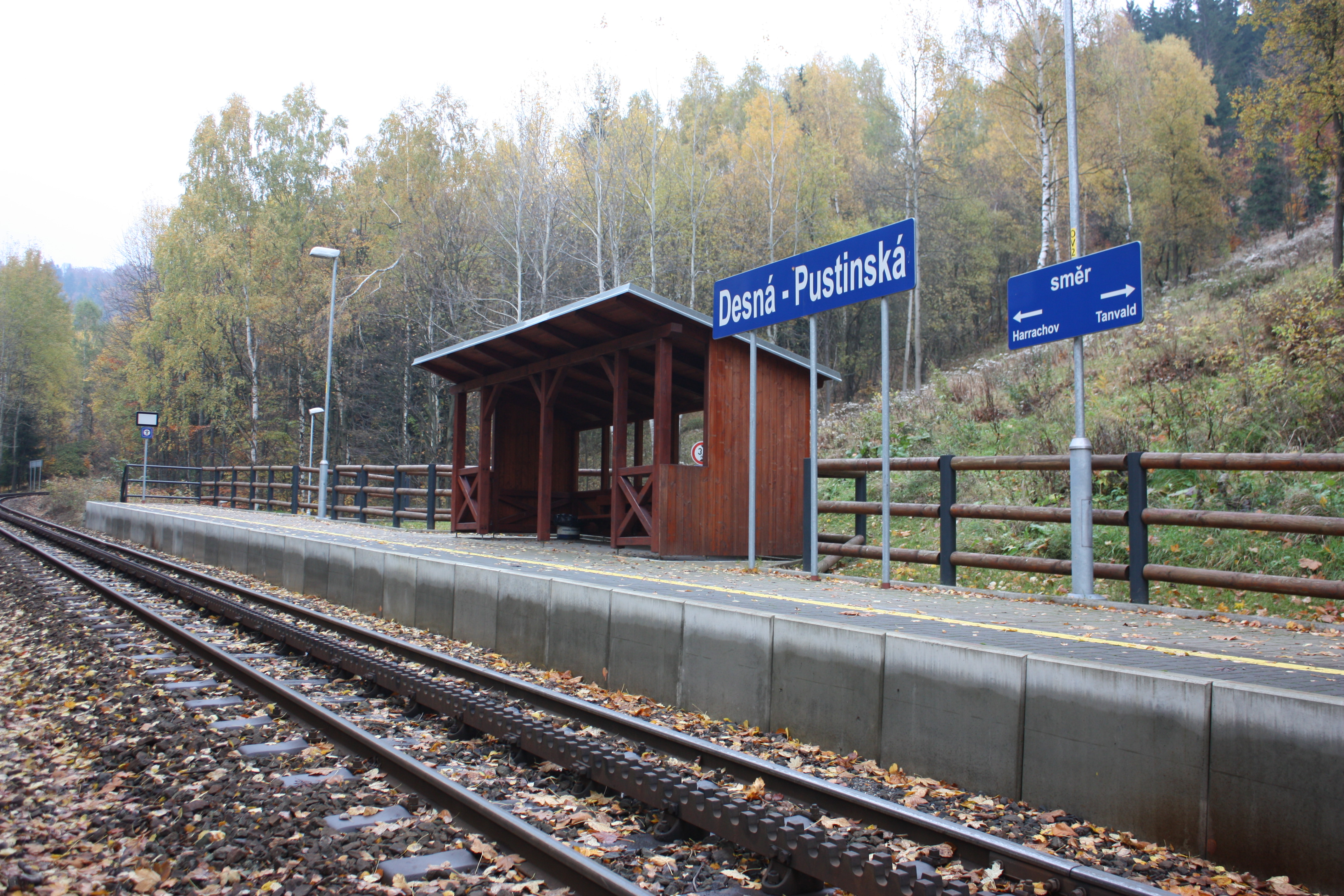 Train stop Desná - Pustinská on the Railway line Tanvald - Harrachov